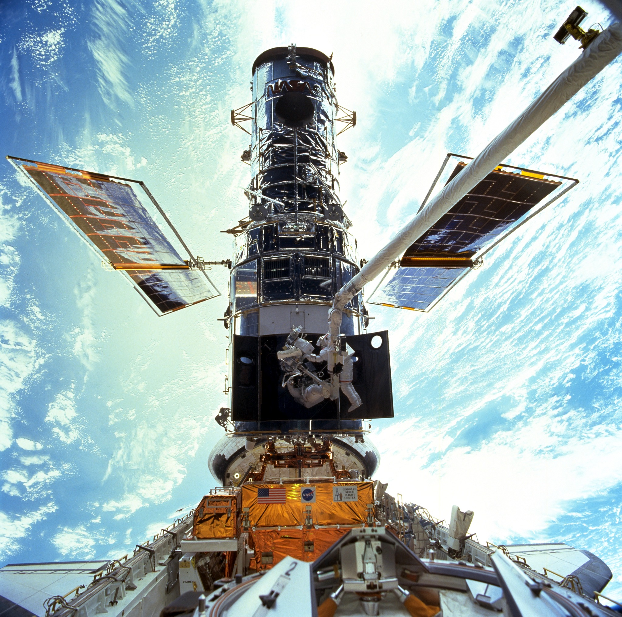 Astronauts Steven L. Smith, and John M. Grunsfeld, appear as small figures in this wide scene photographed during extravehicular activity (EVA). On this space walk they are replacing gyroscopes, contained in rate sensor units (RSU), inside the Hubble Space Telescope. A wide expanse of waters, partially covered by clouds, provides the backdrop for the photograph.